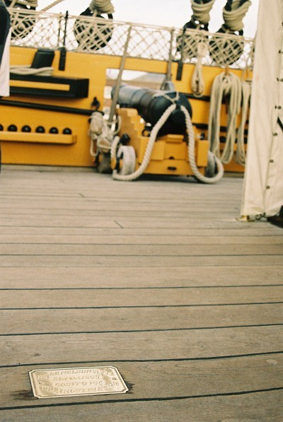 The spot where Nelson fell, fatally wounded, during the Battle of Trafalgar. It was the custom of the time for the Captain of the ship, and because this was the flagship, the Admiral as well, to walk the deck during battle in order to boost morale. Definitely a brave and courageous thing to do.